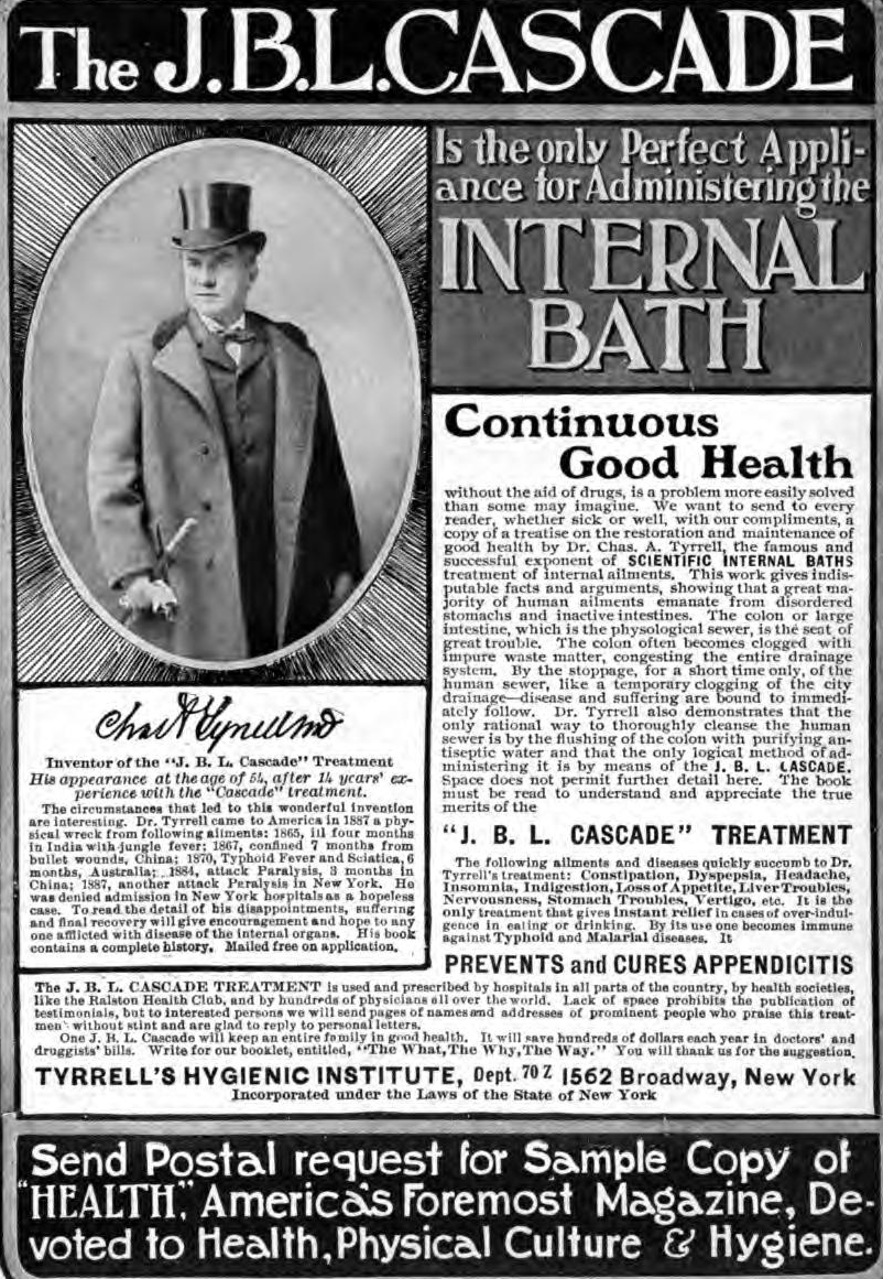 Charles Alfred Tyrrell's J. B. L. Casade advert from 1905.